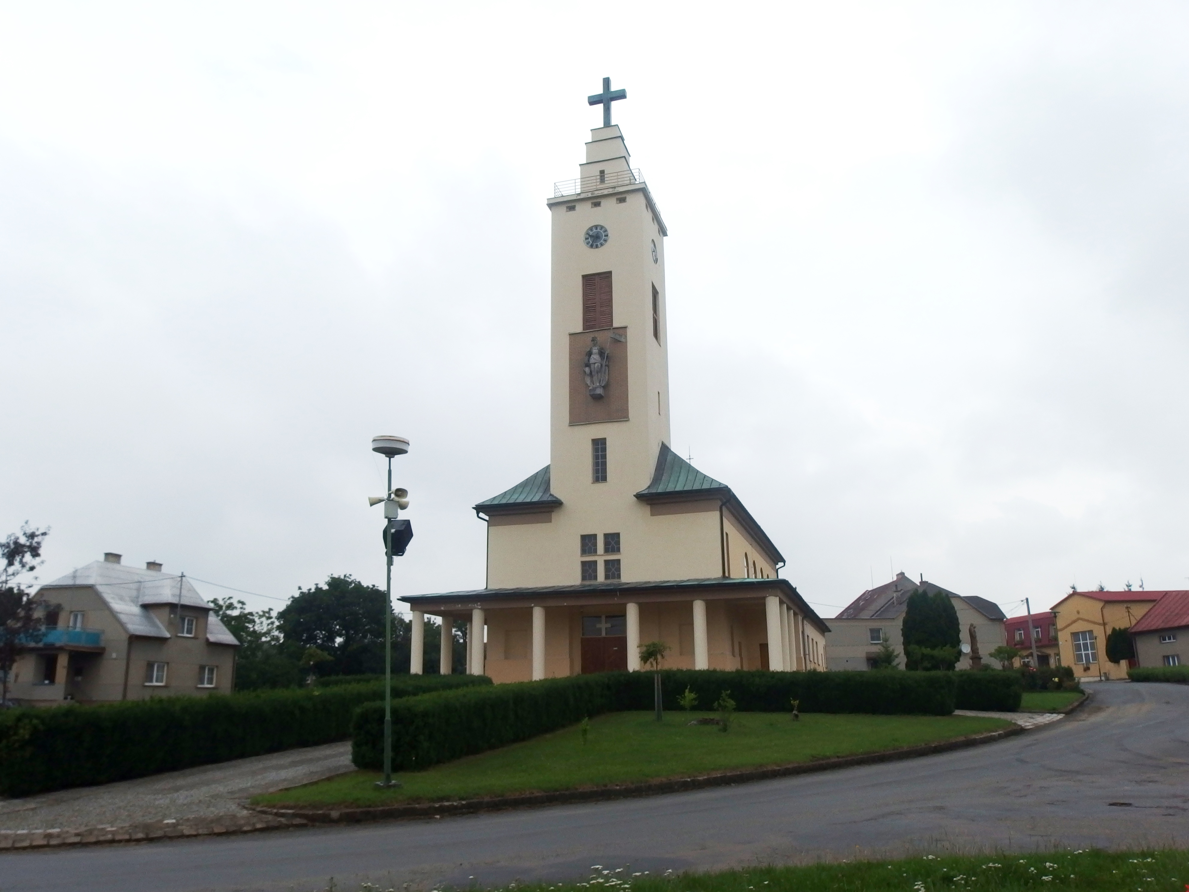 Roštění, Kroměříž District, Czech Republic. Church of Saint Florian from 1932.